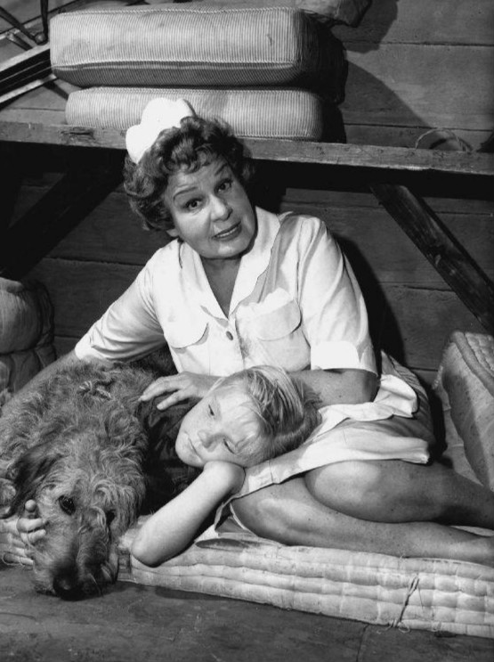 Photo of Shirley Booth as Hazel and Bobby Buntrock as Harold Baxter from the television program Hazel.